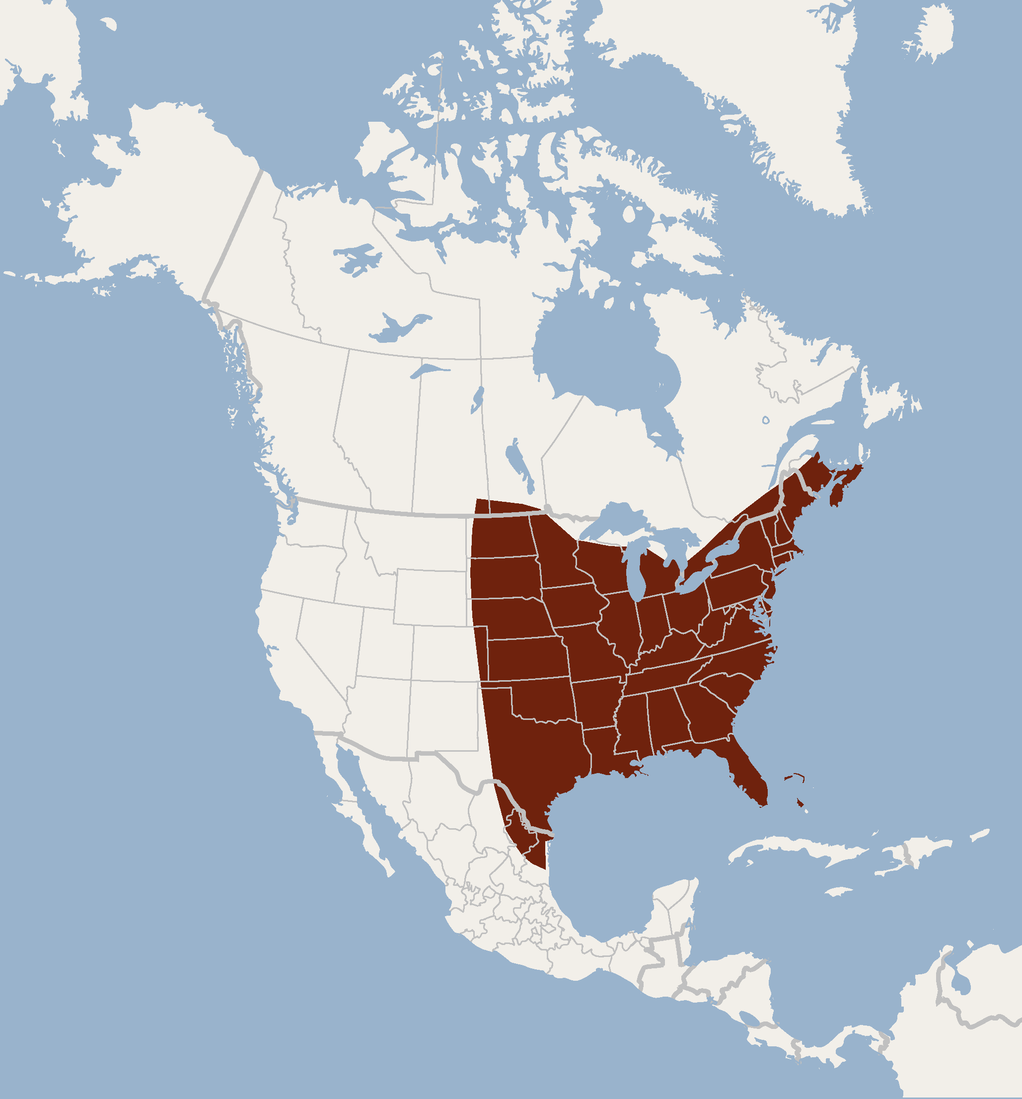 According to Kays & Wilson, 2009